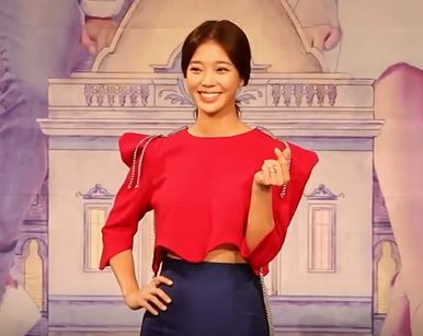 Shopaholic Louis press conference